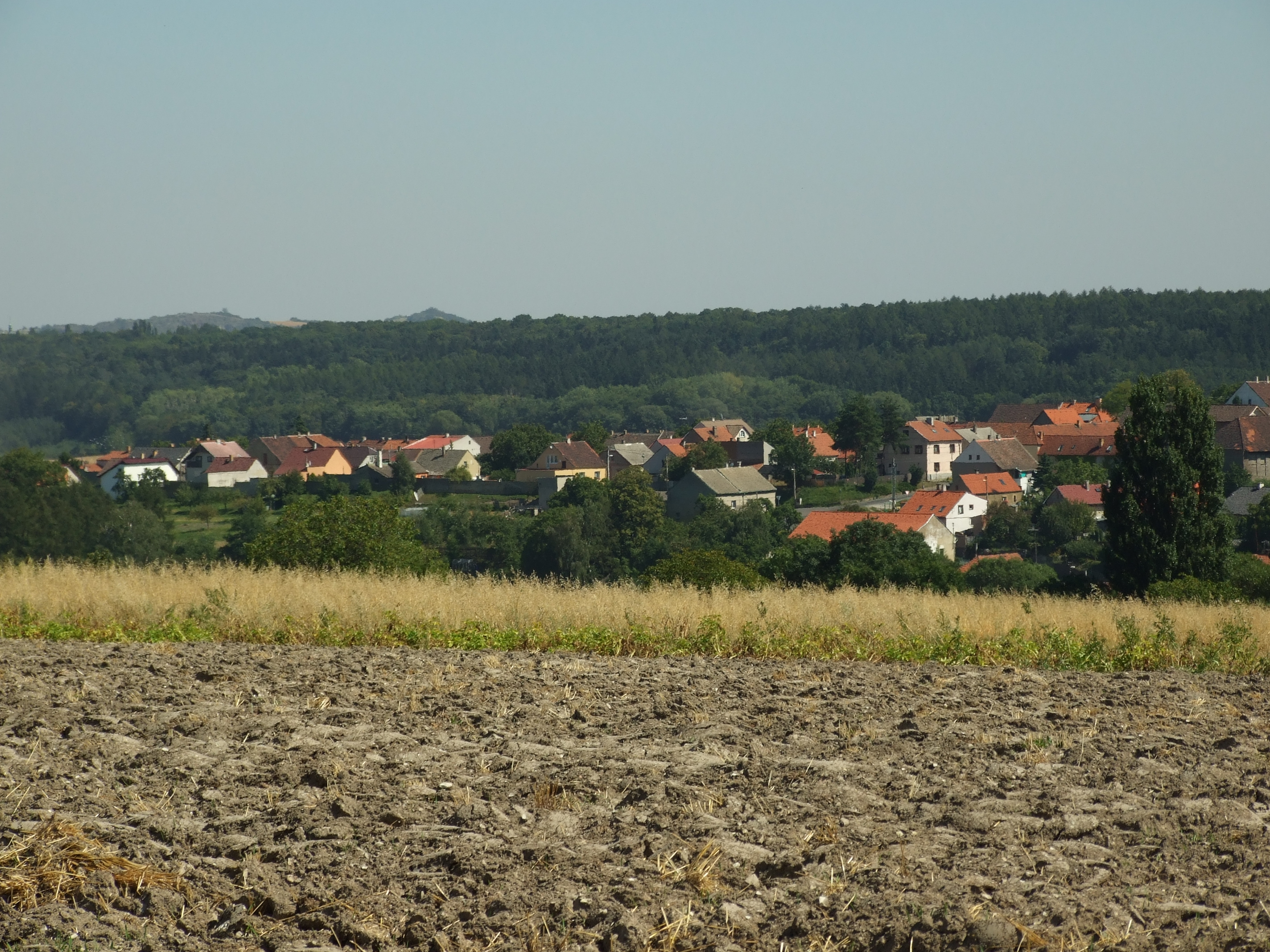 Hradečno village in Kladno district, Central Bohemian region, CZ This photograph was taken within the scope of the 'Czech Municipalities Photographs' grant.